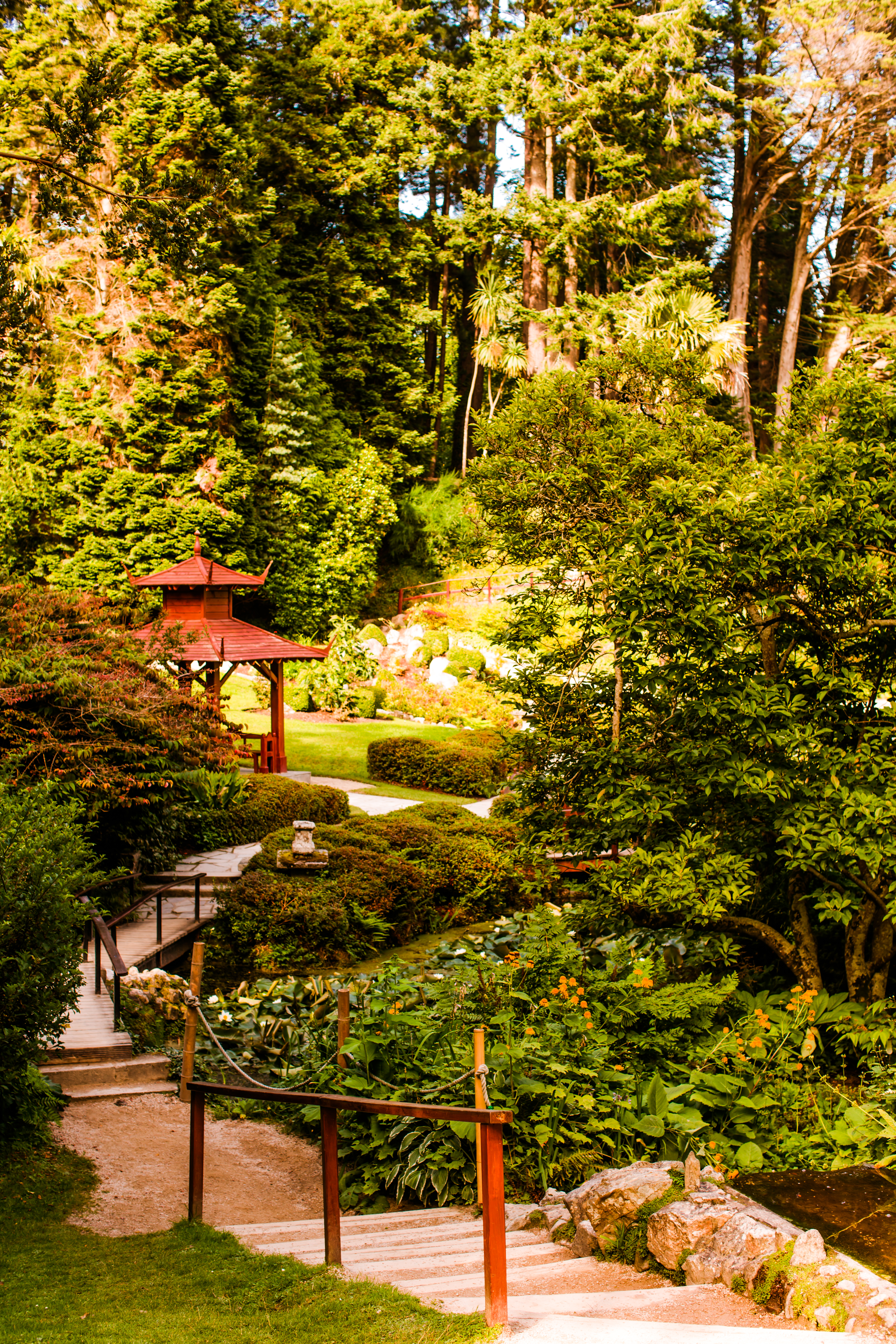 Japanese gardens, Powerscourt Estate, County Wicklow, Ireland 2012